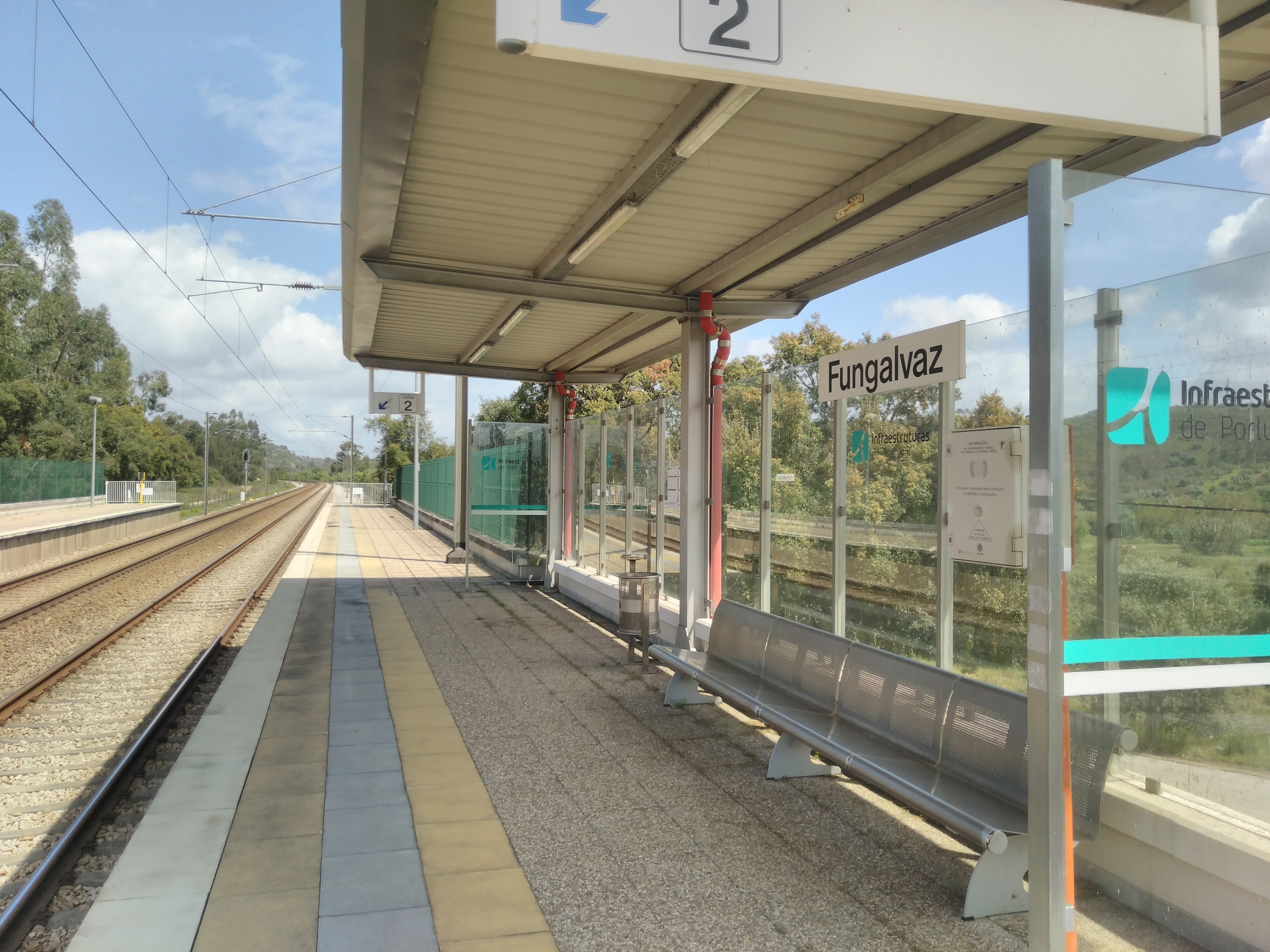 The Fungalvaz halt in 2019